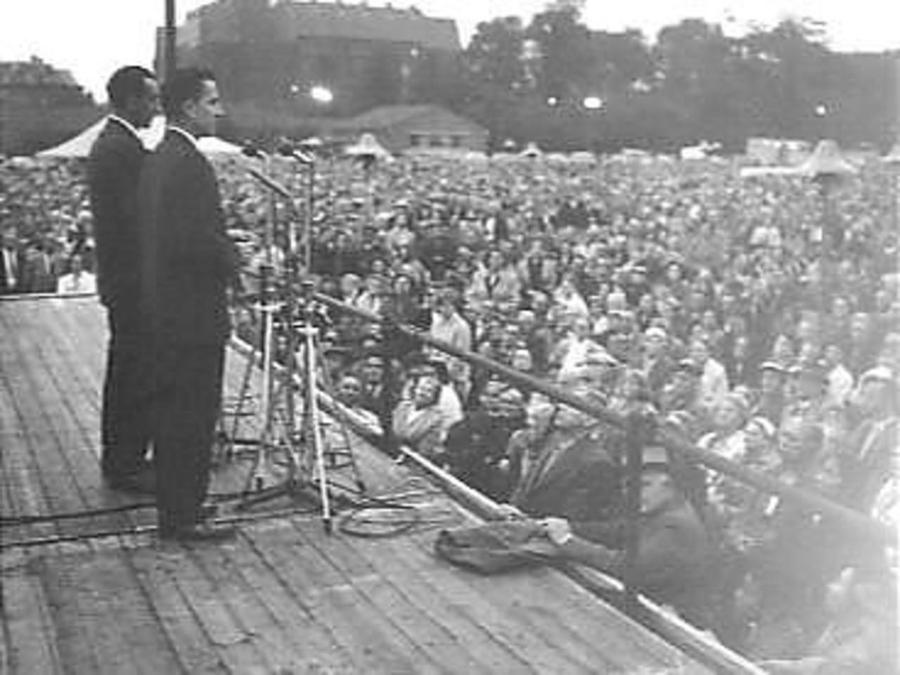 T.L. Osborn in The Hague during a revival meeting on 22 august 1958